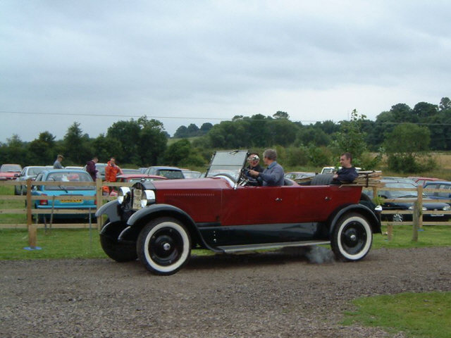 The 1923 Stanley Steam Car. This photograph was taken at Northampton & Lamport Railway and shows a 1923 Stanley Steam Car owned by Mr. J. Rochester of Kettering. This vehicle runs on a mixture of petrol and paraffin and can run for up to 100 miles before needing to refill with water. It is capable of 50mph but comfortable at 30mph.